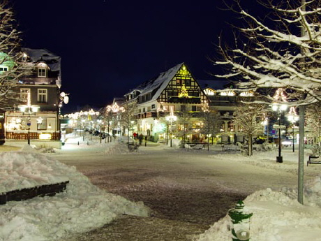 Market place Untere Pforte at night, city of Winterberg, Germany